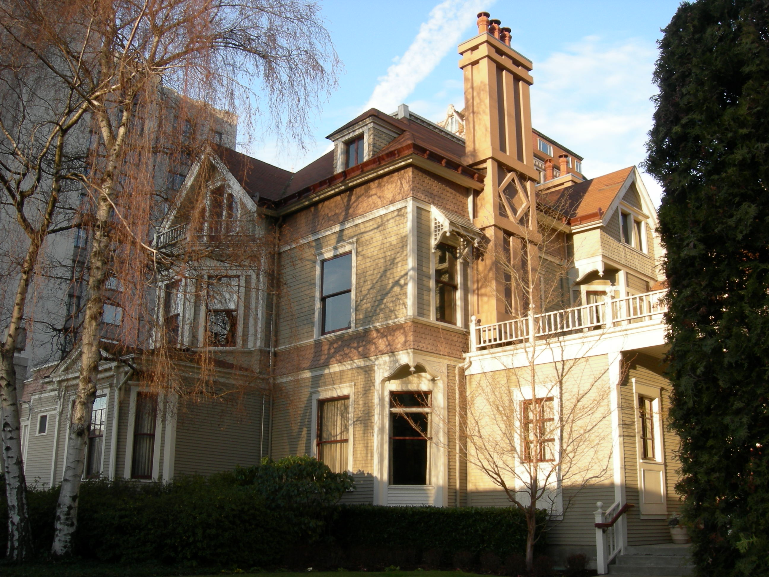 Stacy Mansion, now University Club, 1004 Boren Avenue (corner of Madison), First Hill, Seattle, Washington, USA.